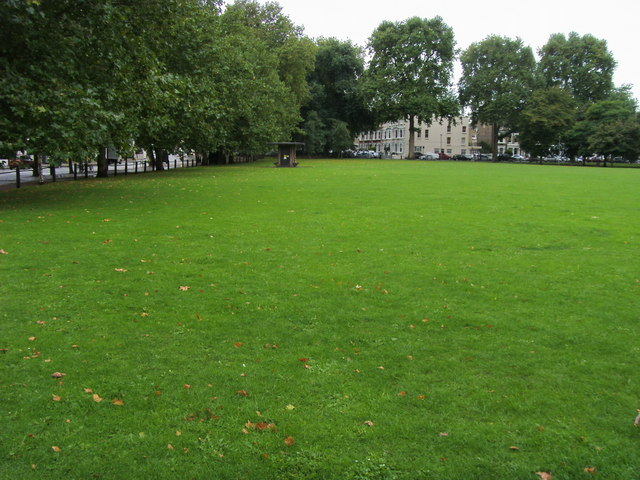 Eel Brook Common Eel Brook Common by New Kings Road